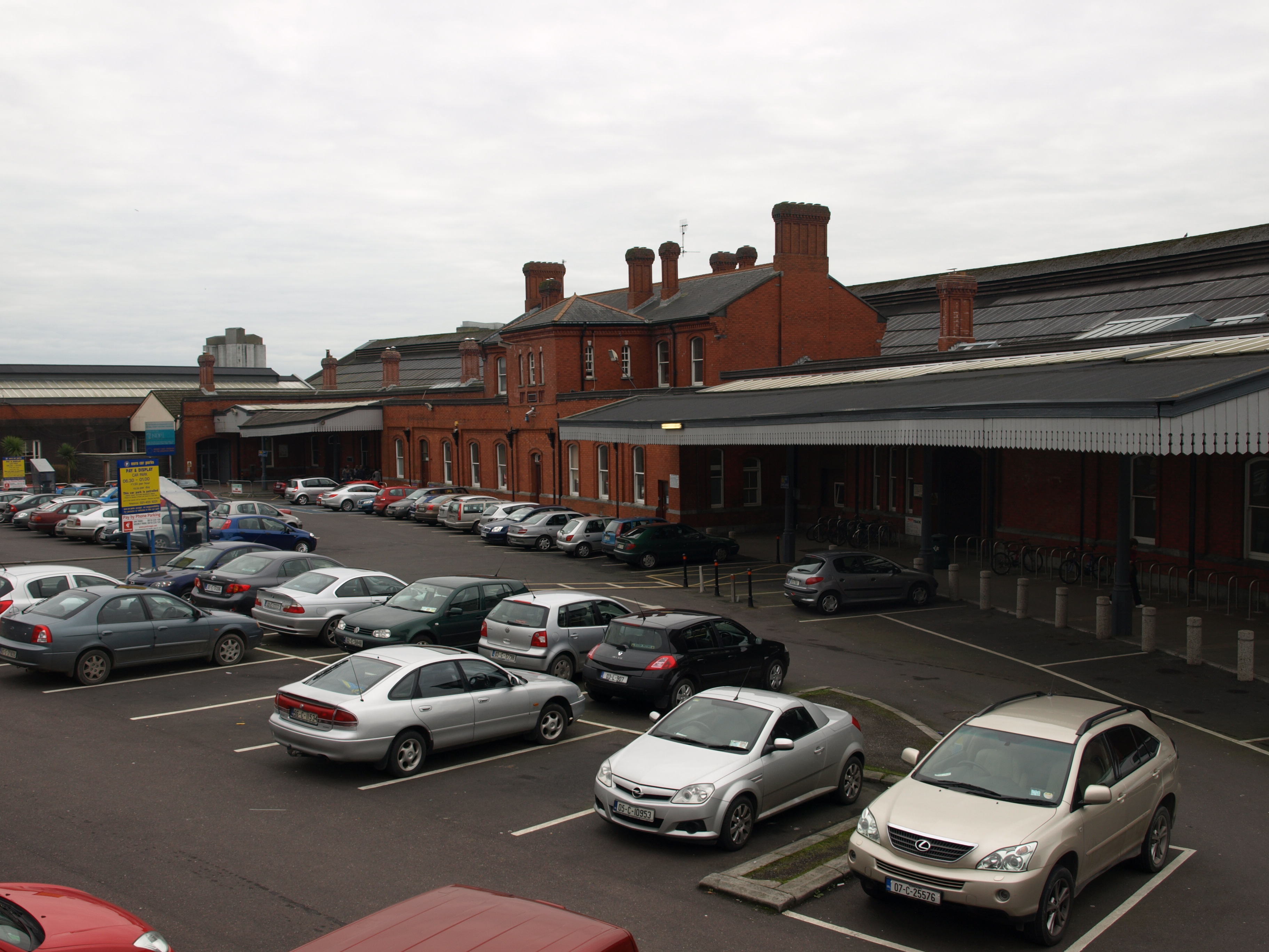 Cork Railway Station